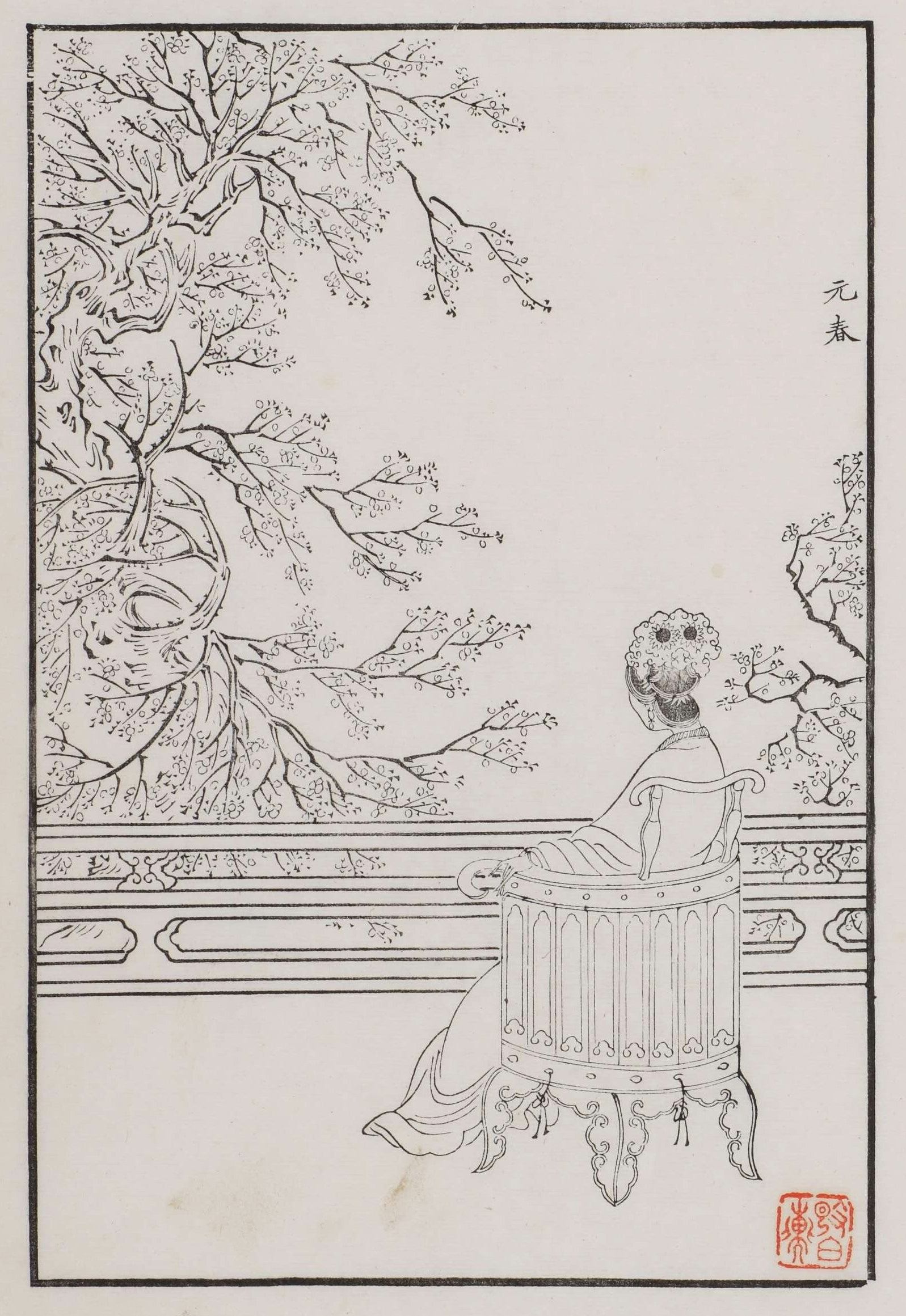 Jia Yuanchun